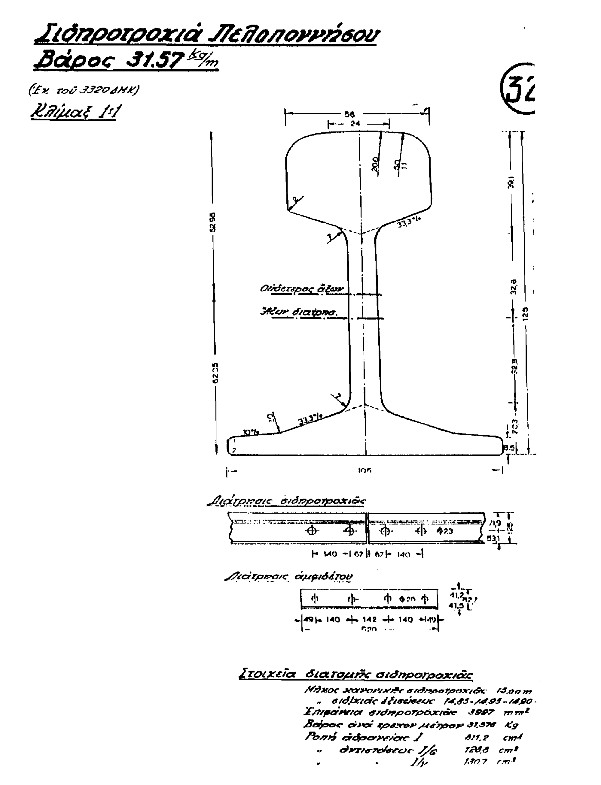 Approved rail profile for metre gauge railway lines in Greece. Mass 31.57 kg/m.